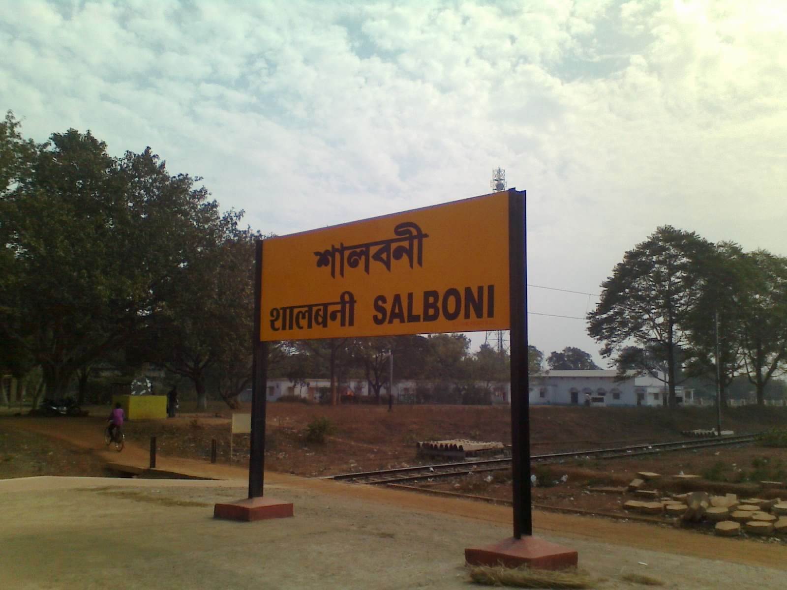 Shalbani Railway Station, Purulia